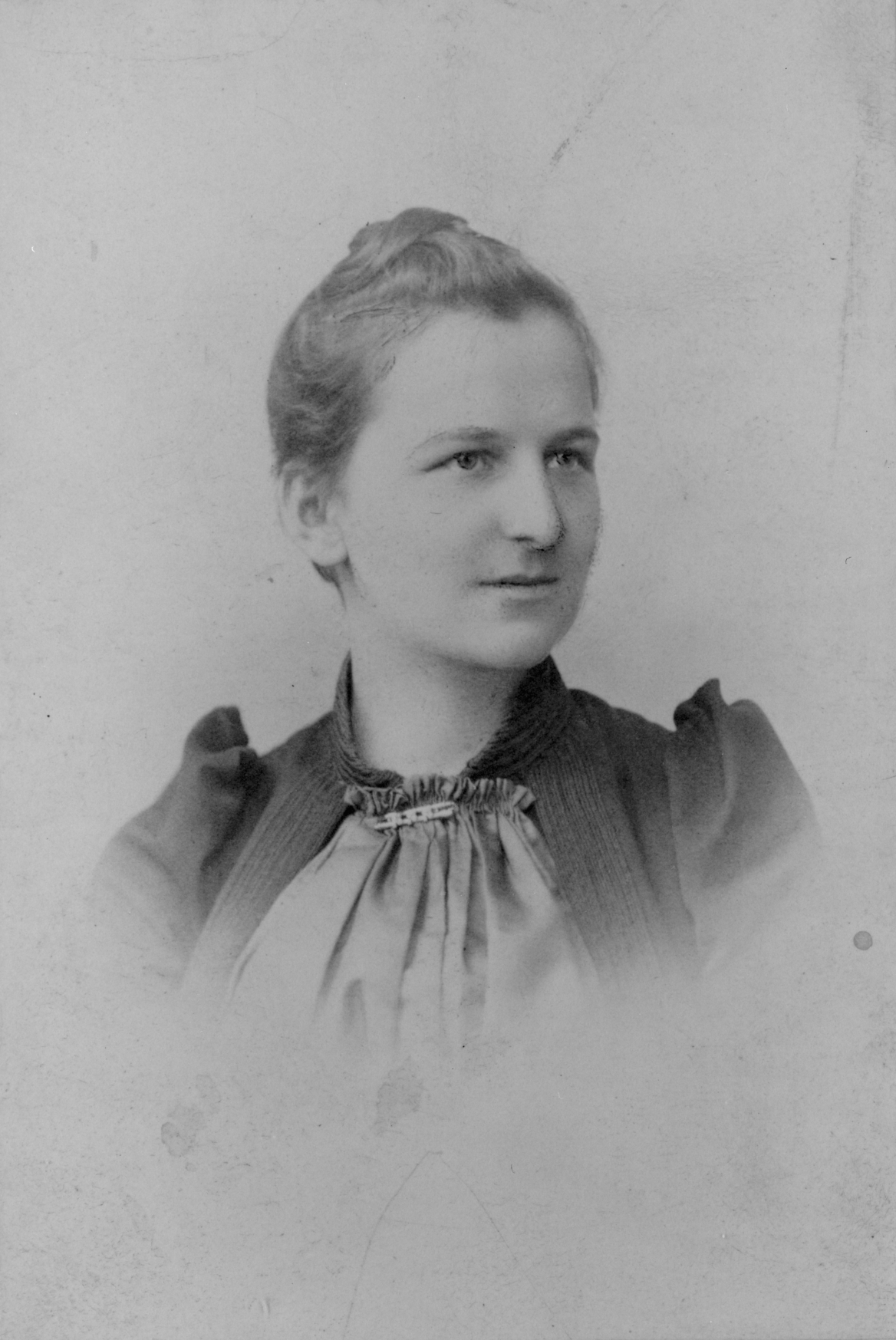 Käthe Schirmacher, German feminist, head-and-shoulders portrait, facing right/ Gottheil & Sohn, Danzig.